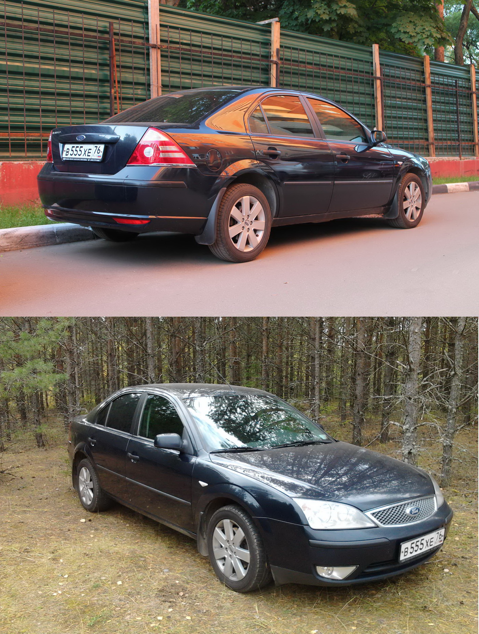 Ford Mondeo III